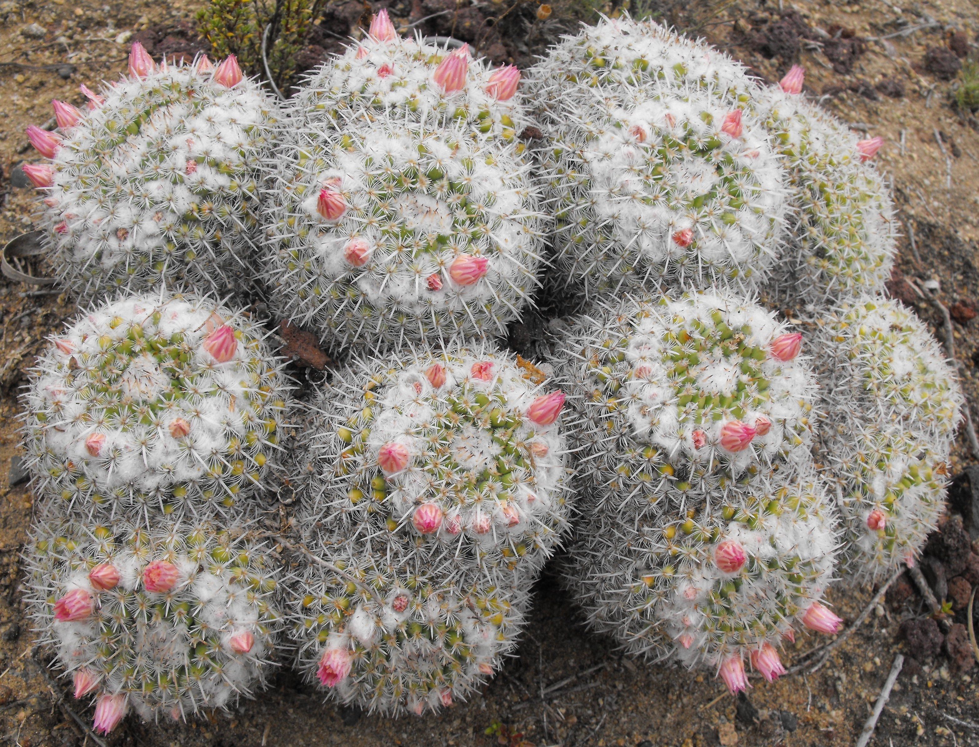 Mammillaria parkinsonii. At the San Diego Botanic Garden (formerly Quail Botanical Gardens) in Encinitas, California. Identified by sign.